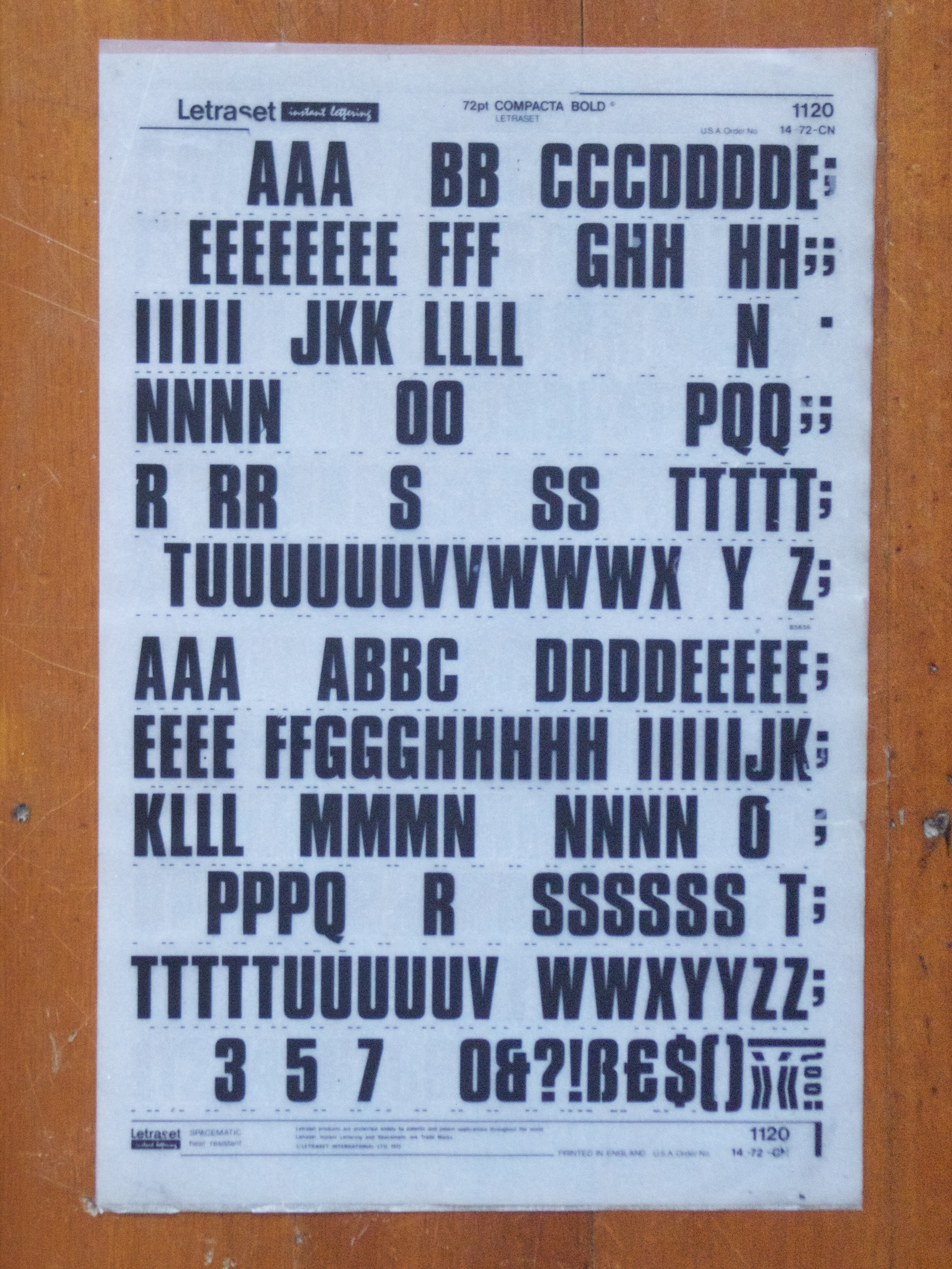 The typeface Compacta, shown in its original form as Letraset dry transfers